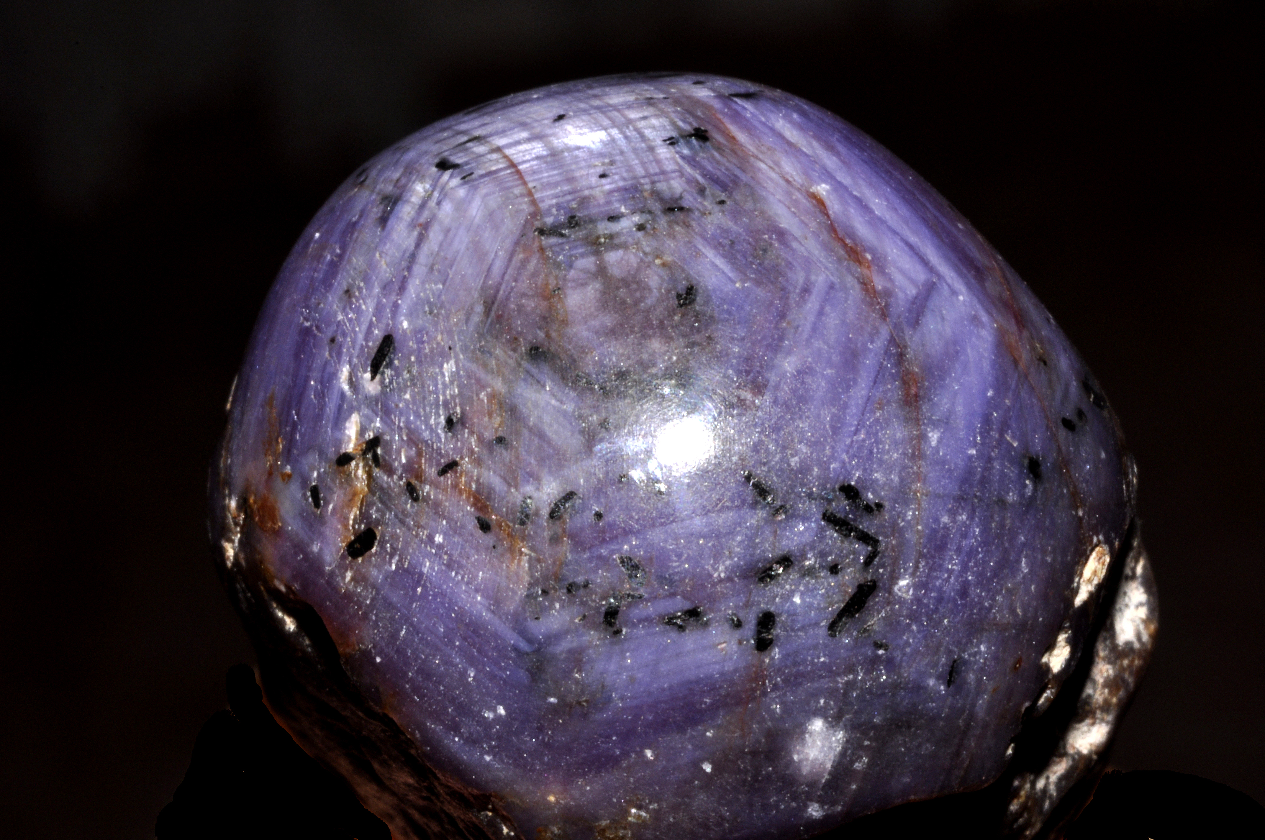 Crystal of sapphire